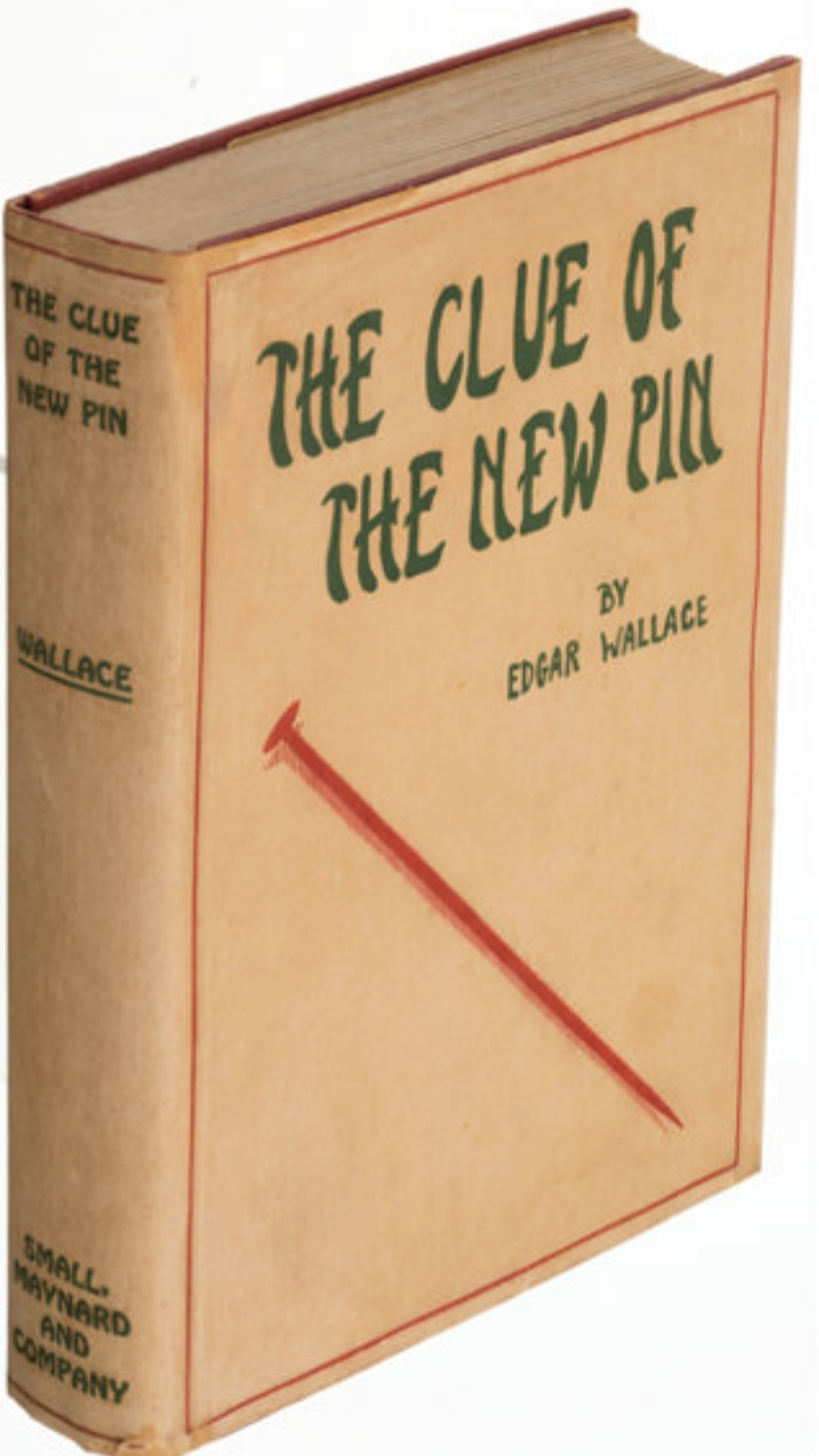 Clue of the New Pin cover